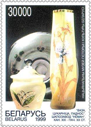 Stamp of Belarus